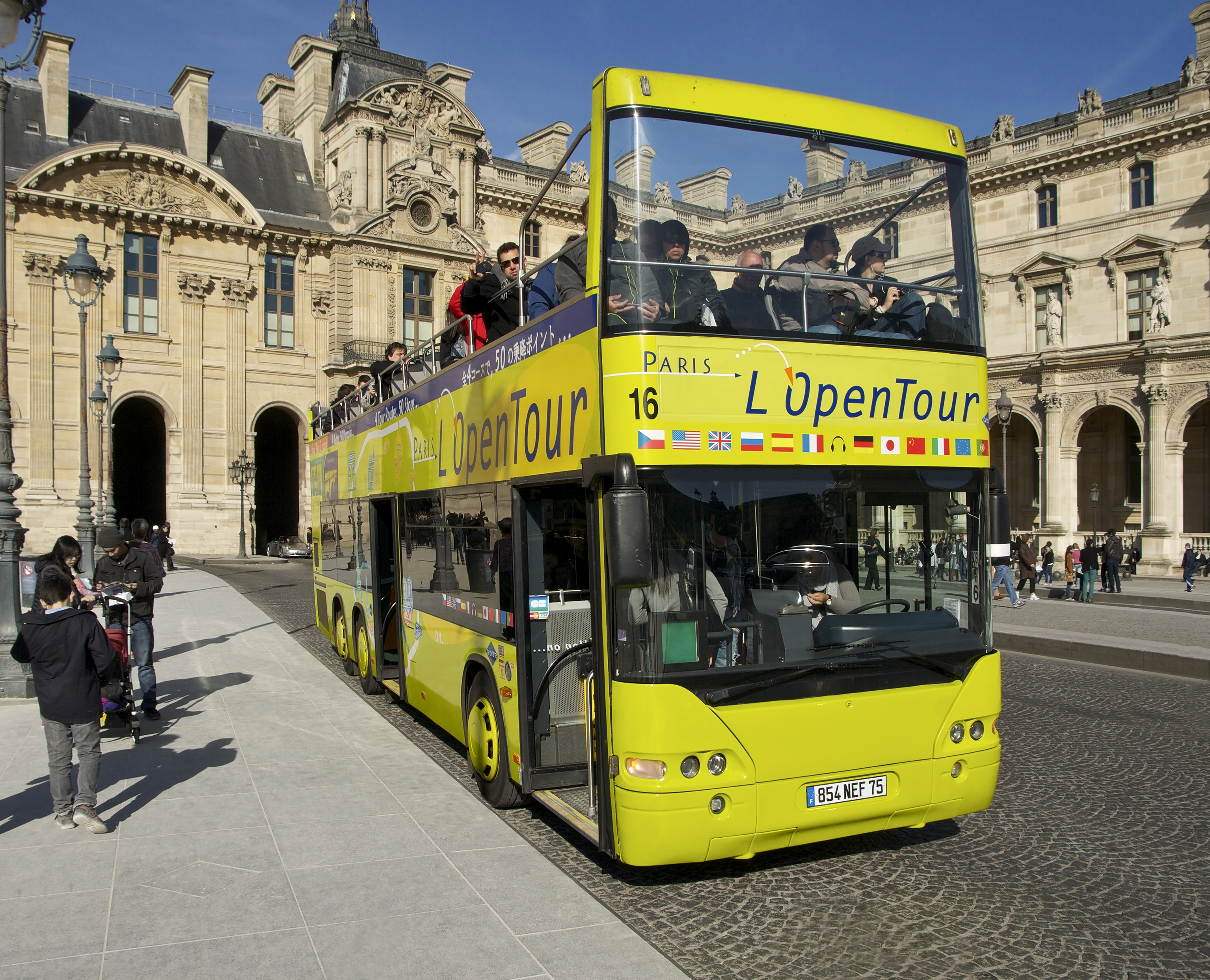 A tourist double-decker bus in front of the Louvre, Paris